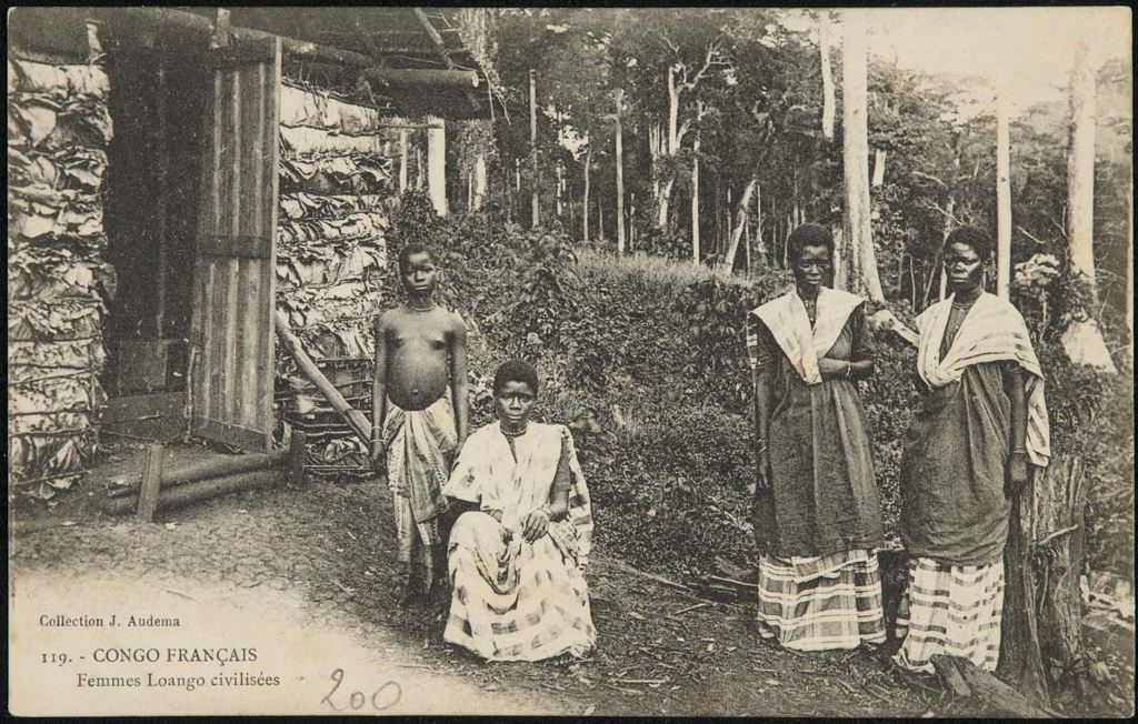 MFA = Museum of Fine Art - Boston DIMENSIONS Horizontal: Overall: 8.9 x 14 cm (3 1/2 x 5 1/2 in.) ACCESSION NUMBER 2012.4462 MEDIUM OR TECHNIQUE Collotype on card stock NOT ON VIEW COLLECTIONS: Africa and Oceania, Europe, Prints and Drawings CLASSIFICATIONS: Postcards Back: divided. Mint Provenance: Between 1950 and 2011, acquired by Leonard A. Lauder, New York, from various postcard dealers in the United States, Canada and Europe; 2012, gift of Leonard A. Lauder to the MFA. (Accession Date: April 25, 2012) Credit Line Leonard A. Lauder Postcard Archive—Gift of Leonard A. Lauder